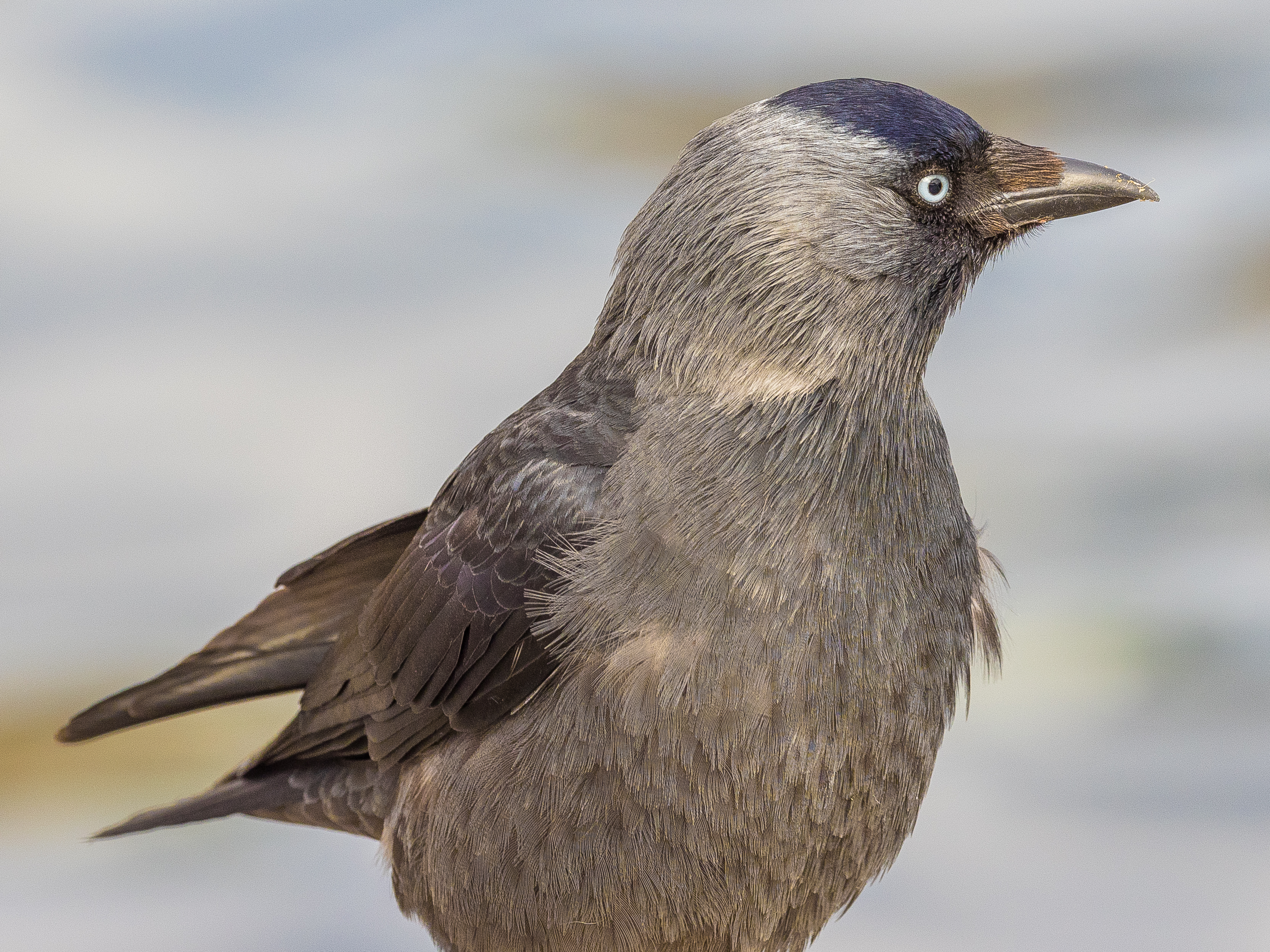 Kaja, Western jackdaw, Corvus monedula, around Vaxholm, Sweden April 2016